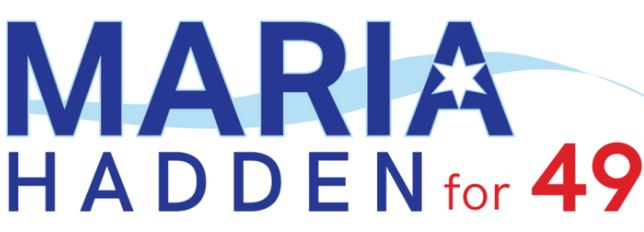 Campaign logo for Maria Hadden for 49th Ward Alderman in 2019 Chicago aldermanic elections